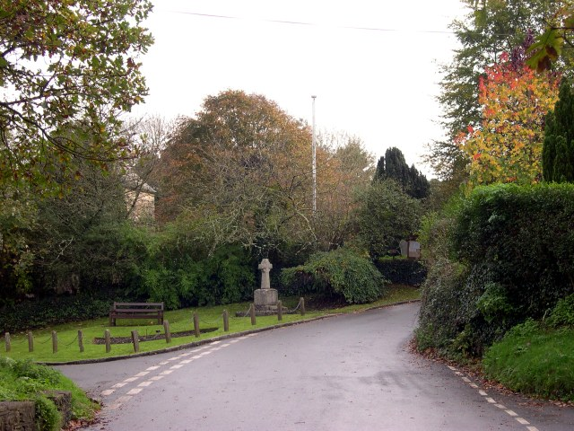 The Road outside the Church in St John Ornamental garden trees and shrubs bring some extra colour to this November scene.